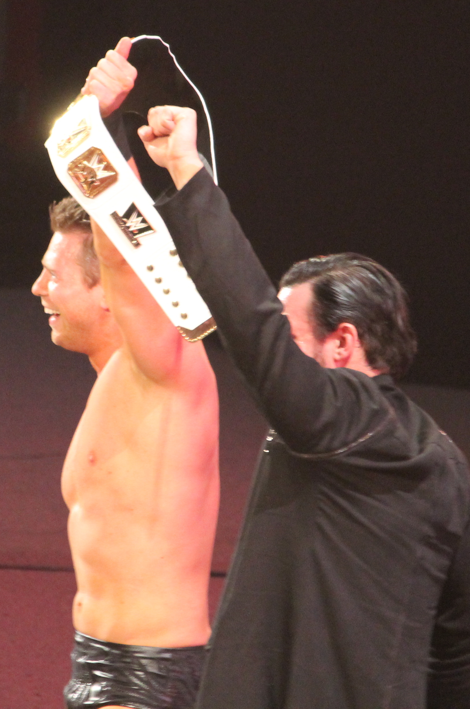 The Miz celebrating with Damien Sandow after defeating Dolph Ziggler for the WWE Intercontinental Championship at Night of Champions on September 21, 2014. Cropped from original.